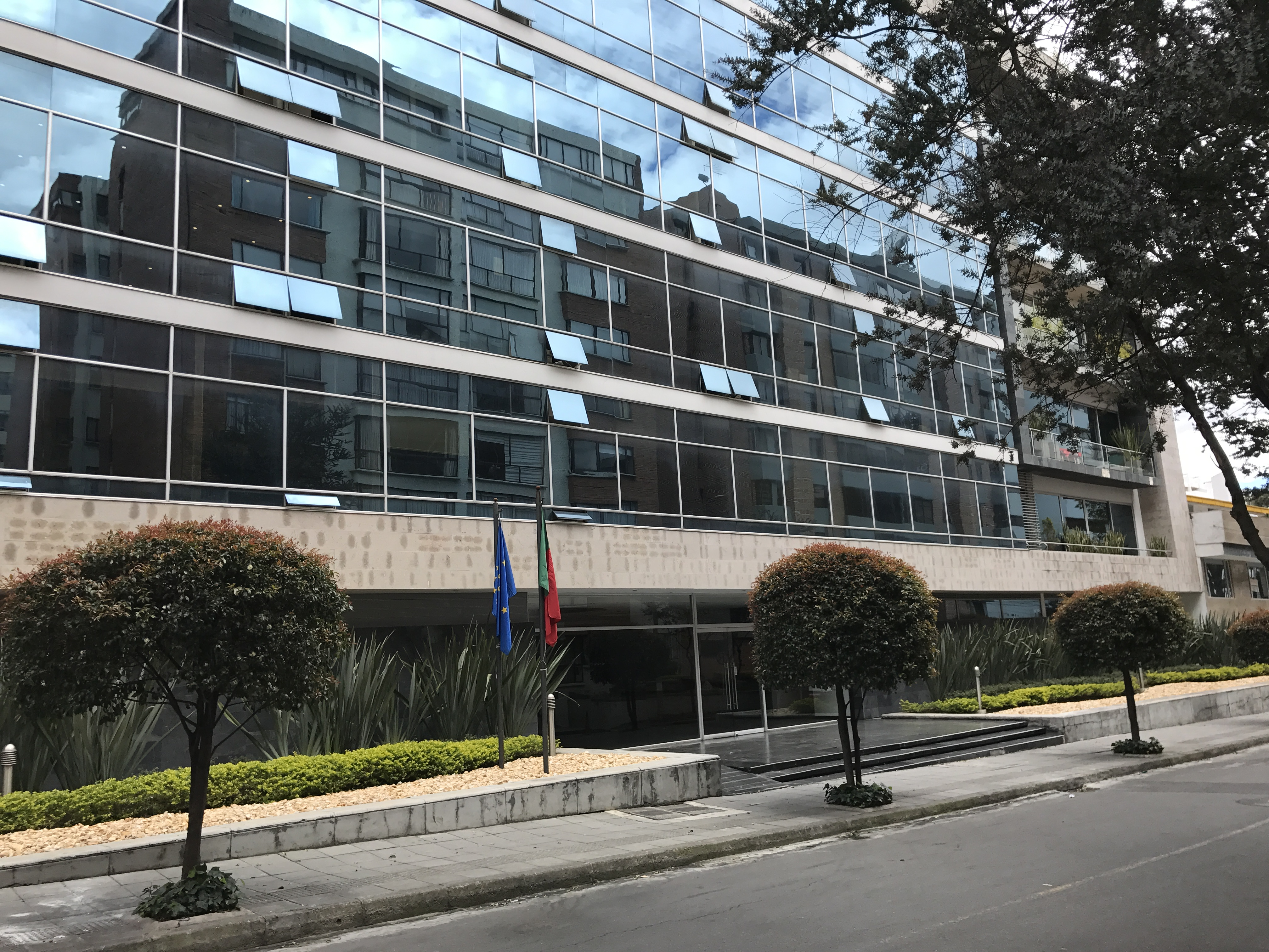 Embassy of Portugal in Bogota, Colombia